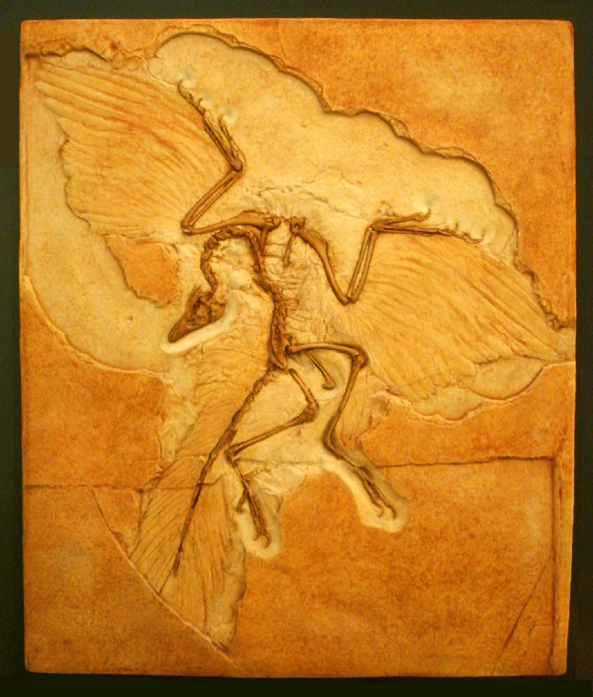 Fossil Archaeopteryx, American Museum of Natural History, New York, NY